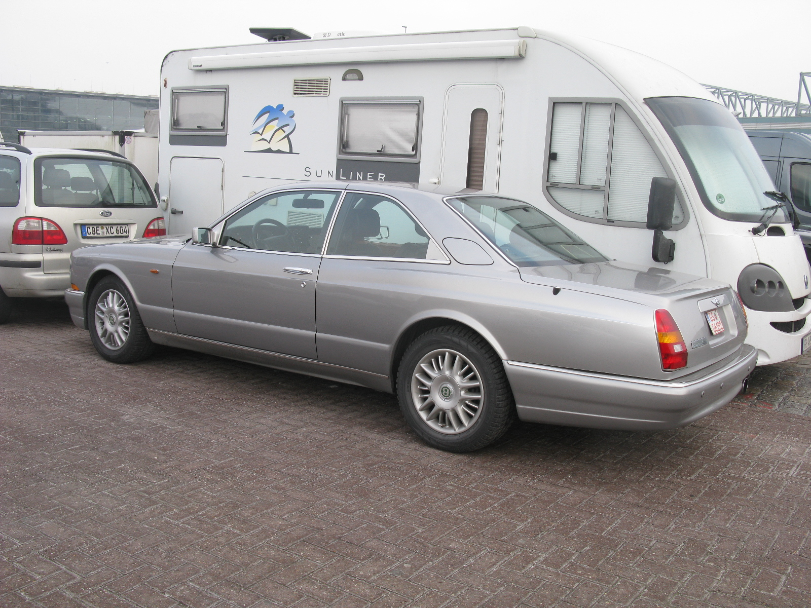 Bentley Continental R